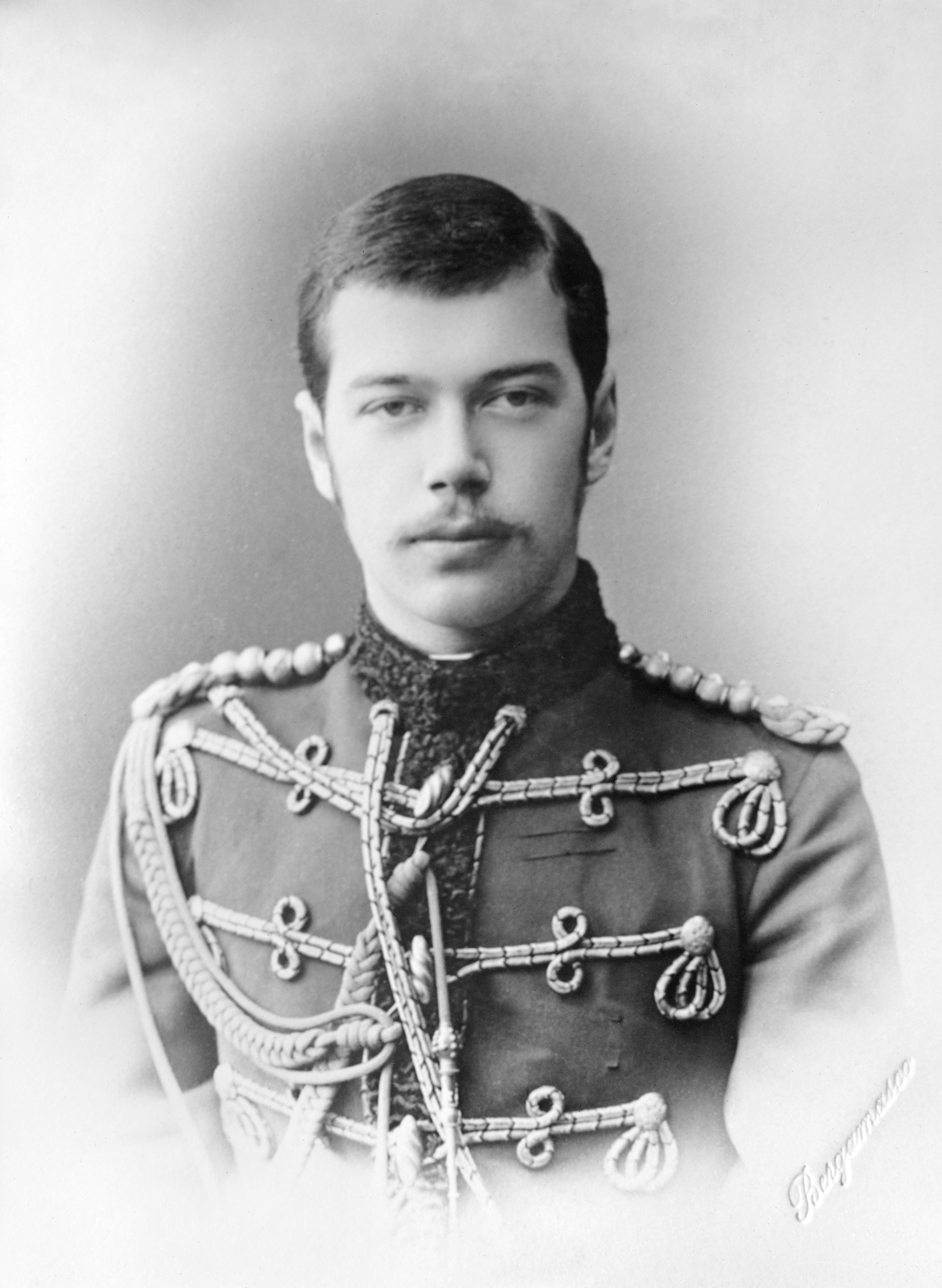 Tsarevich Nicholas Alexandrovich